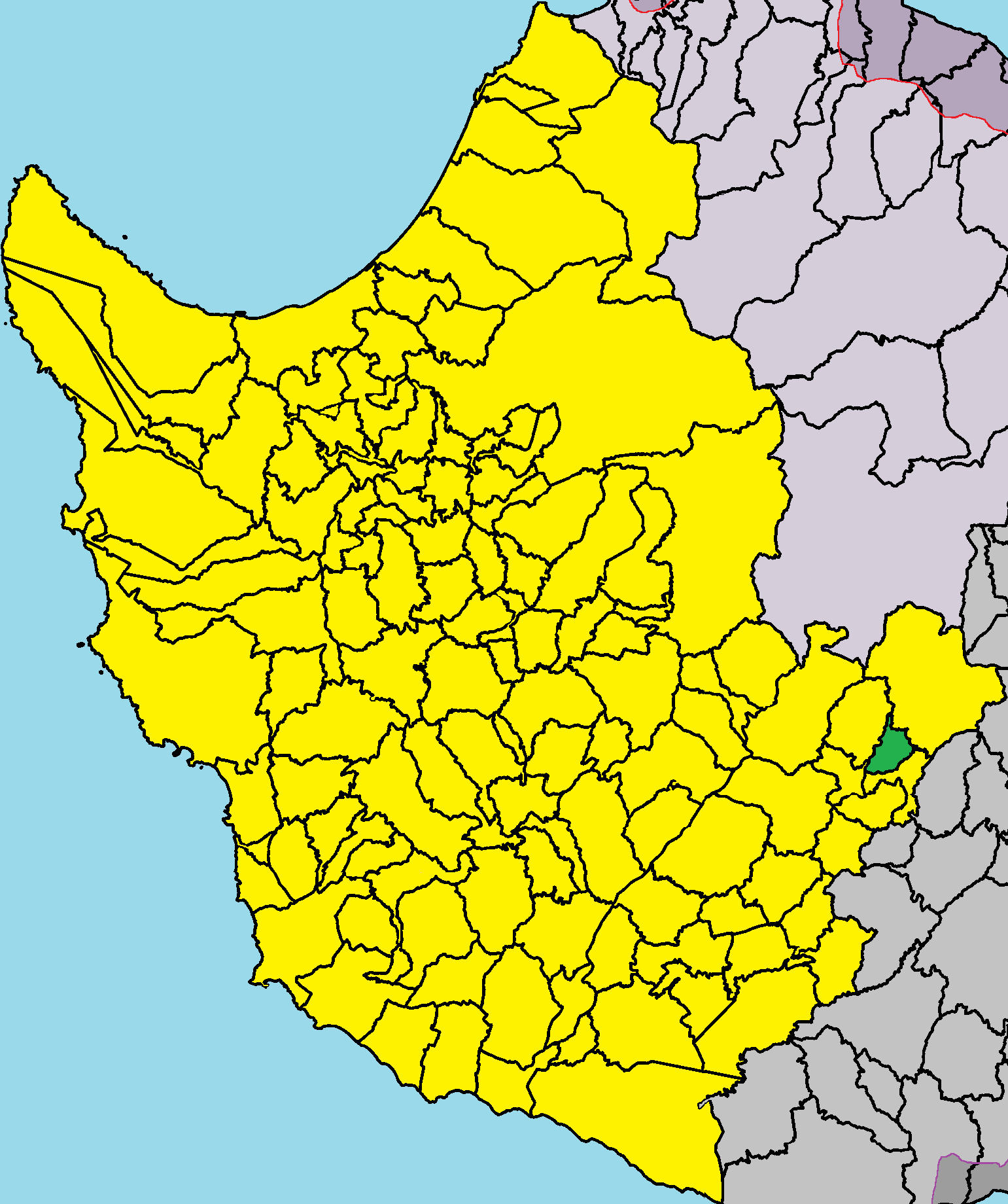 Philousa Kelokedharon in Paphos District.